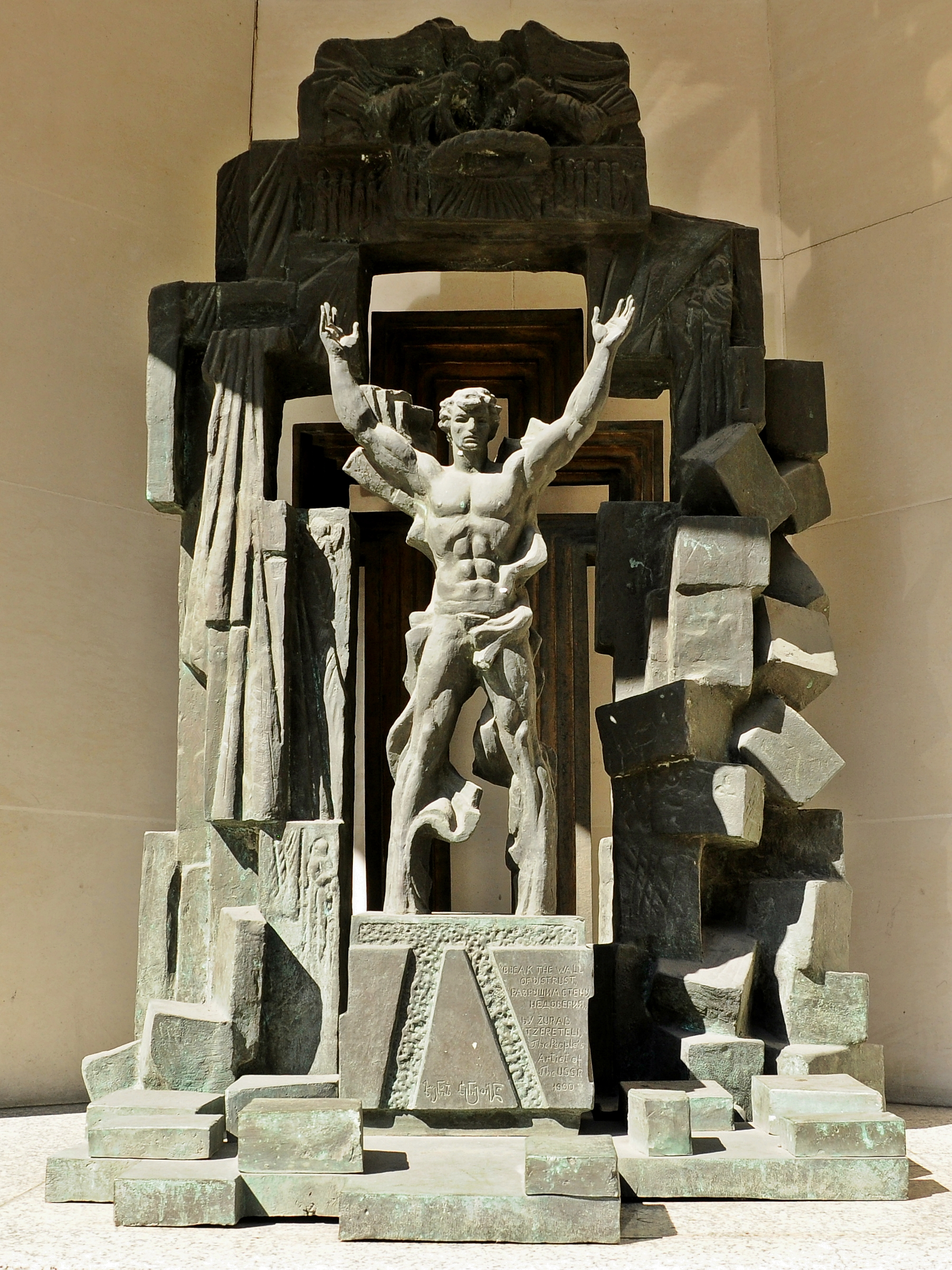 Break the Wall of Distrust is a bronze sculpture by Soviet artist Zurab Tsereteli located in Cannon Street, between St. Paul's Cathedral and the Bank of England. 1990.